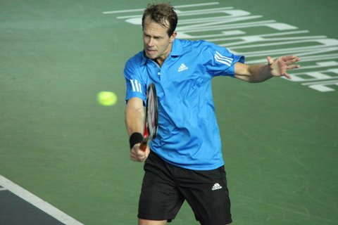 Stefan Edberg hitting a volley in the Hong Kong Tennis Classic.